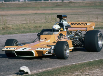 Frank Matich in the Matich A50 at the Surfers Paradise International Raceway round of the 1972 Australian Drivers' Championship, 27th August 1972 - Photo by Graham Ruckert.